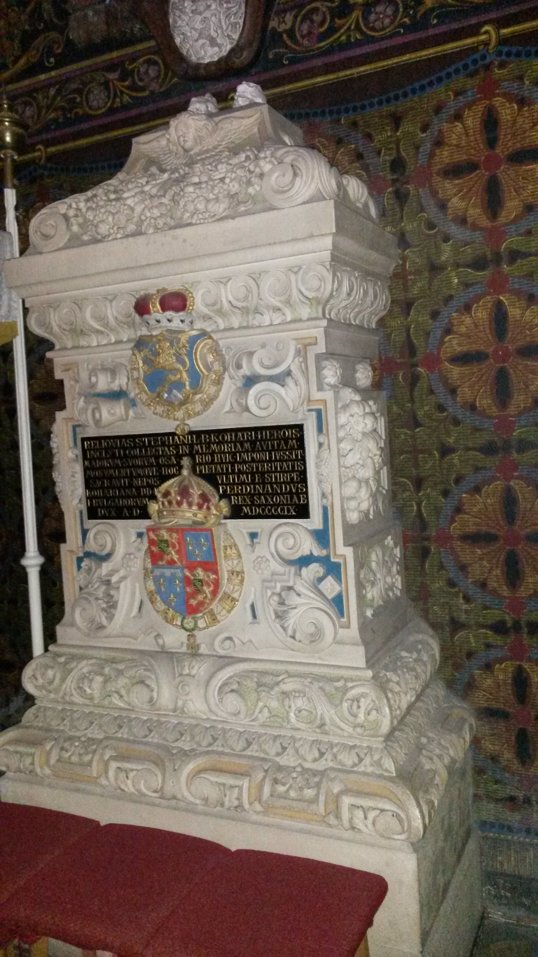 Monument ot Stephan II. Kohary in Hronsky Benadik